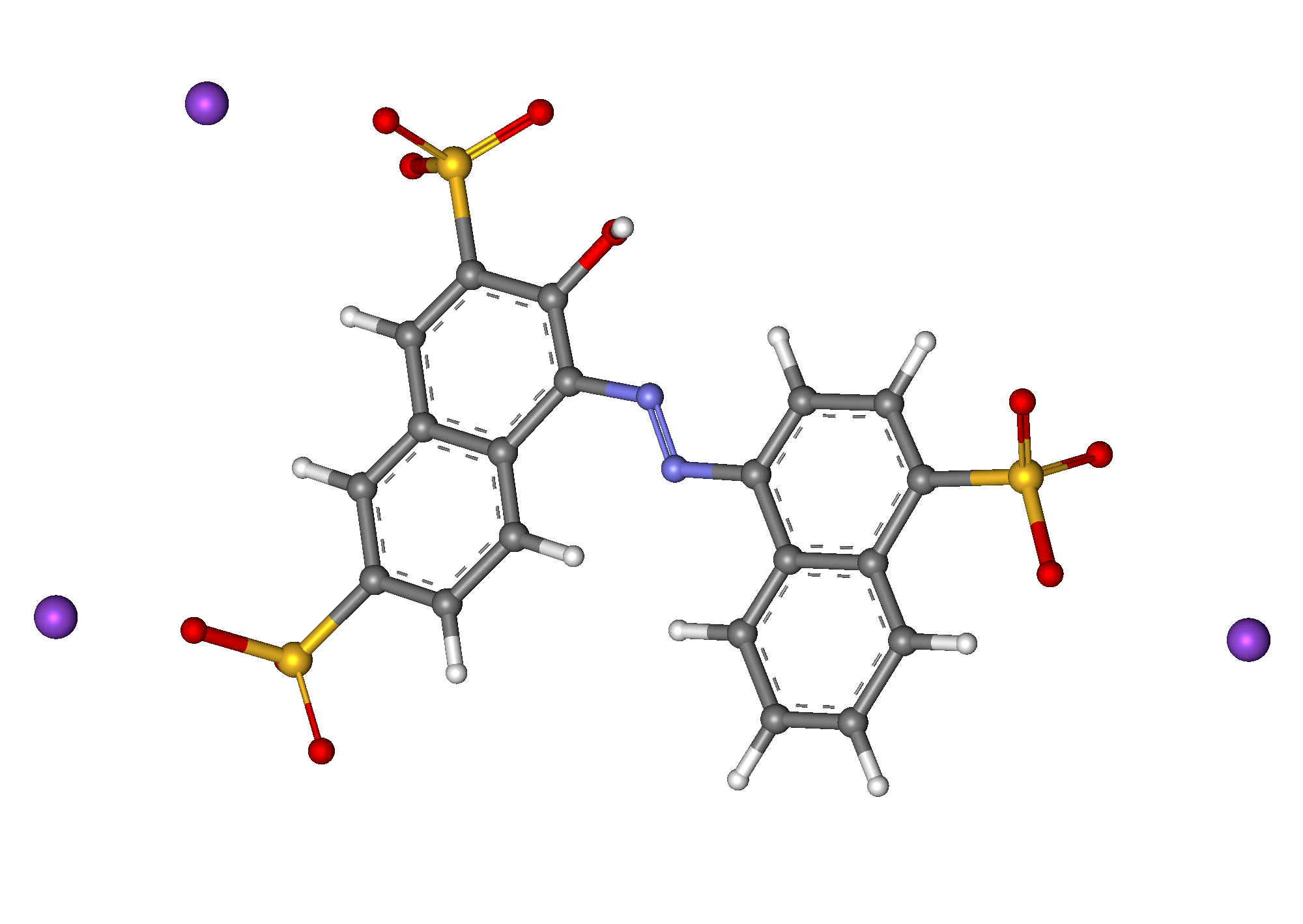 Ball-and-stick model of Amaranth (dye) molecule. The structure is taken from ChemSpider. ID 21169821